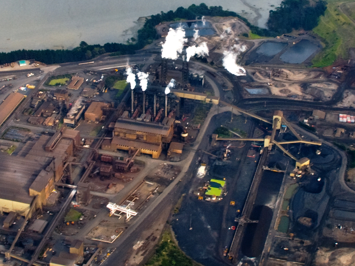 Glenbrook Steel Mill, Auckland, New Zealand as seen from the air. Cropped view focussing on the rotary kilns, where direct reduction is made (SL/RN process).